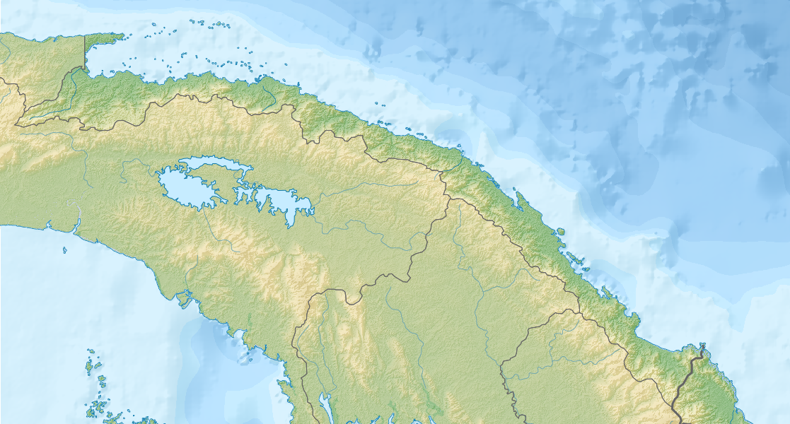 Relief map of Kuna Yala comarca, Panama.